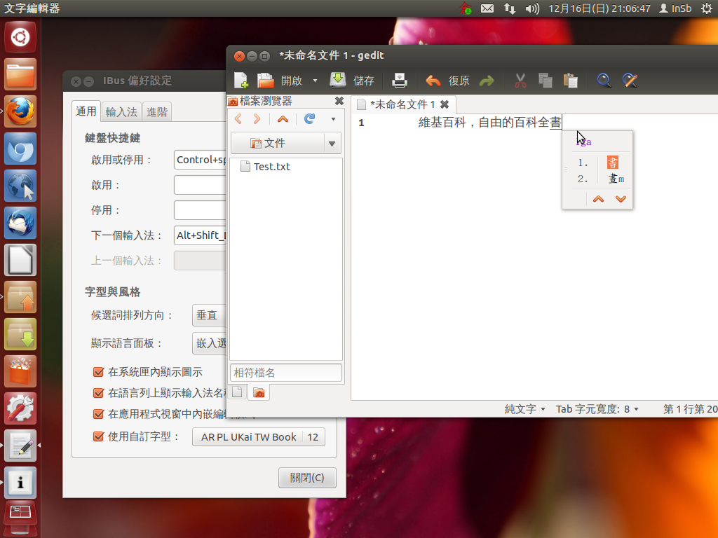 IBus 1.4.1, IBus Preferences and gedit 3.4.1 in Ubuntu 12.04.1(CHT).